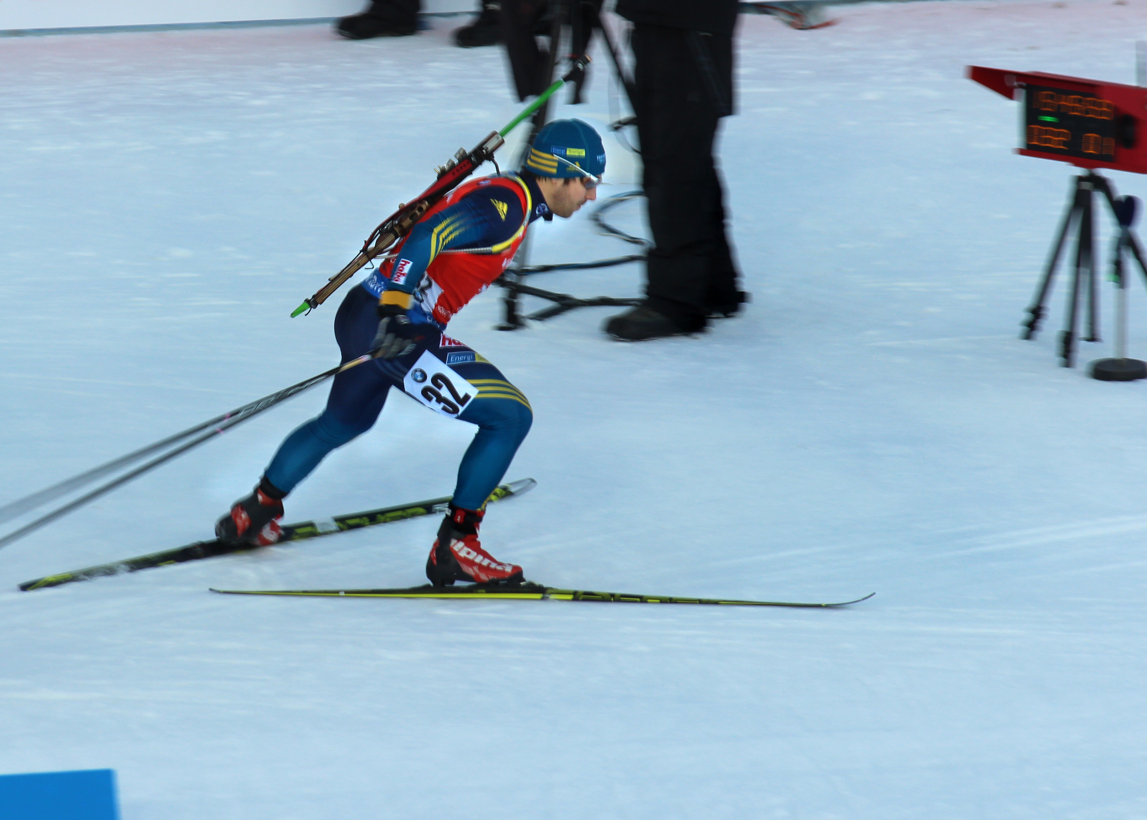 Tobias Arwidson at Biathlon World Cup 2015 in Nové Město, Czech Republic – sprint men